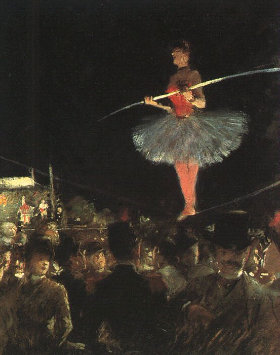 The Tight-Rope Walker